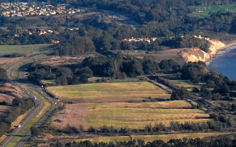 Aerial photo of a portion of the coastal section of Ellwood Oil Field west of Goleta, California with the edge of the Sandpiper Golf Course top right and the Bacara Resort just below that.